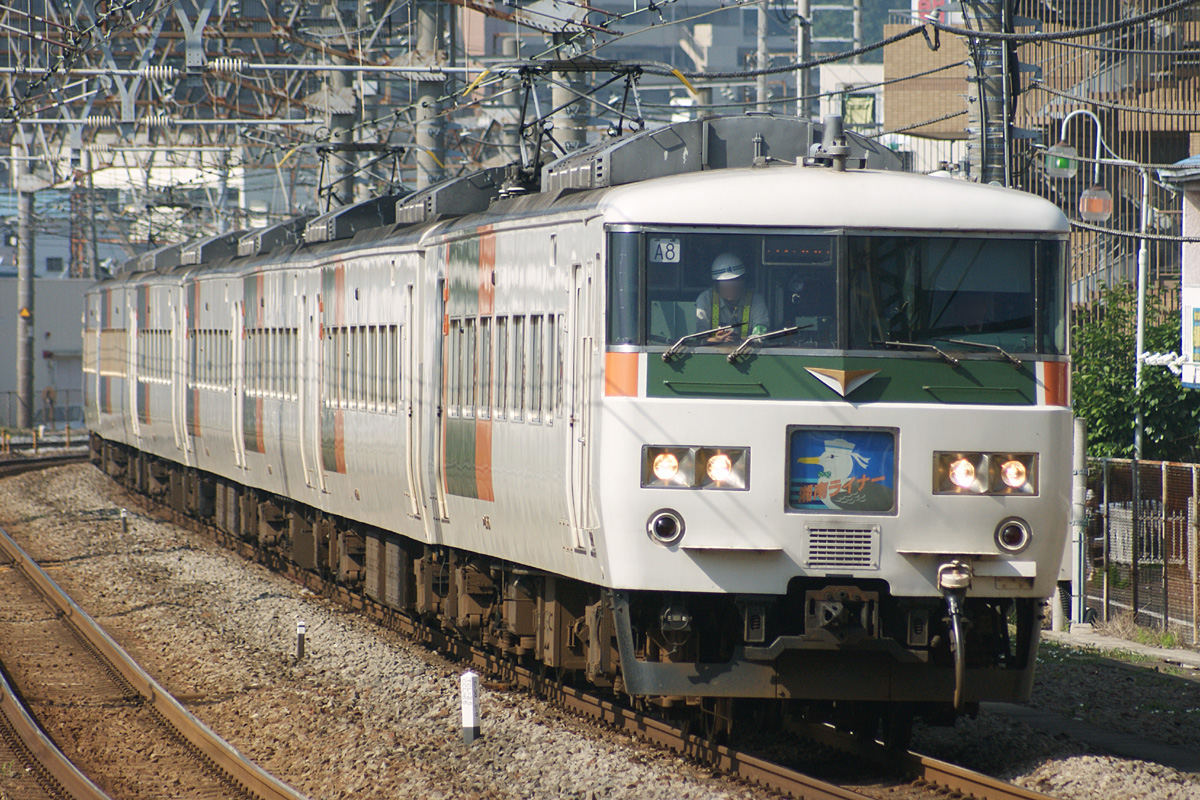 JR East 185 series EMU set A8 approaching Ofuna Station on a Shonan Liner rapid service